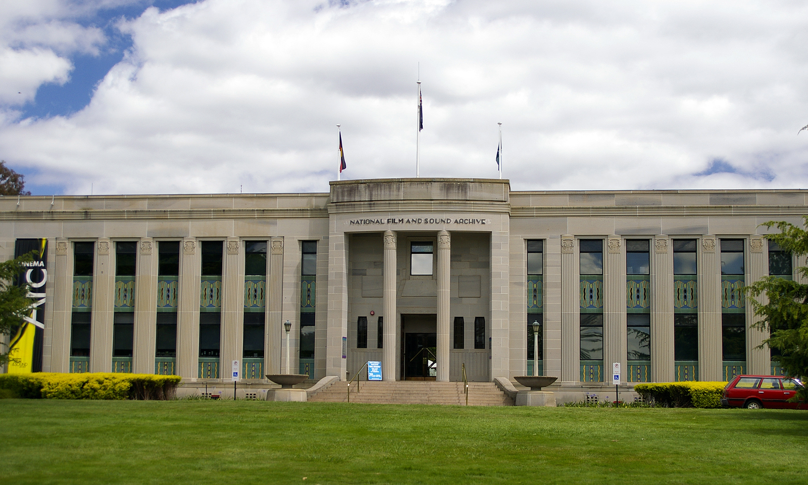 National Film and Sound Archive in Canberra, Australian Capital Territory